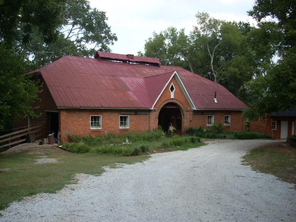 J. C. Striblin Barn, Pickens County, 220 Issaqueena Trail, Clemson (Pickens County, South Carolina)